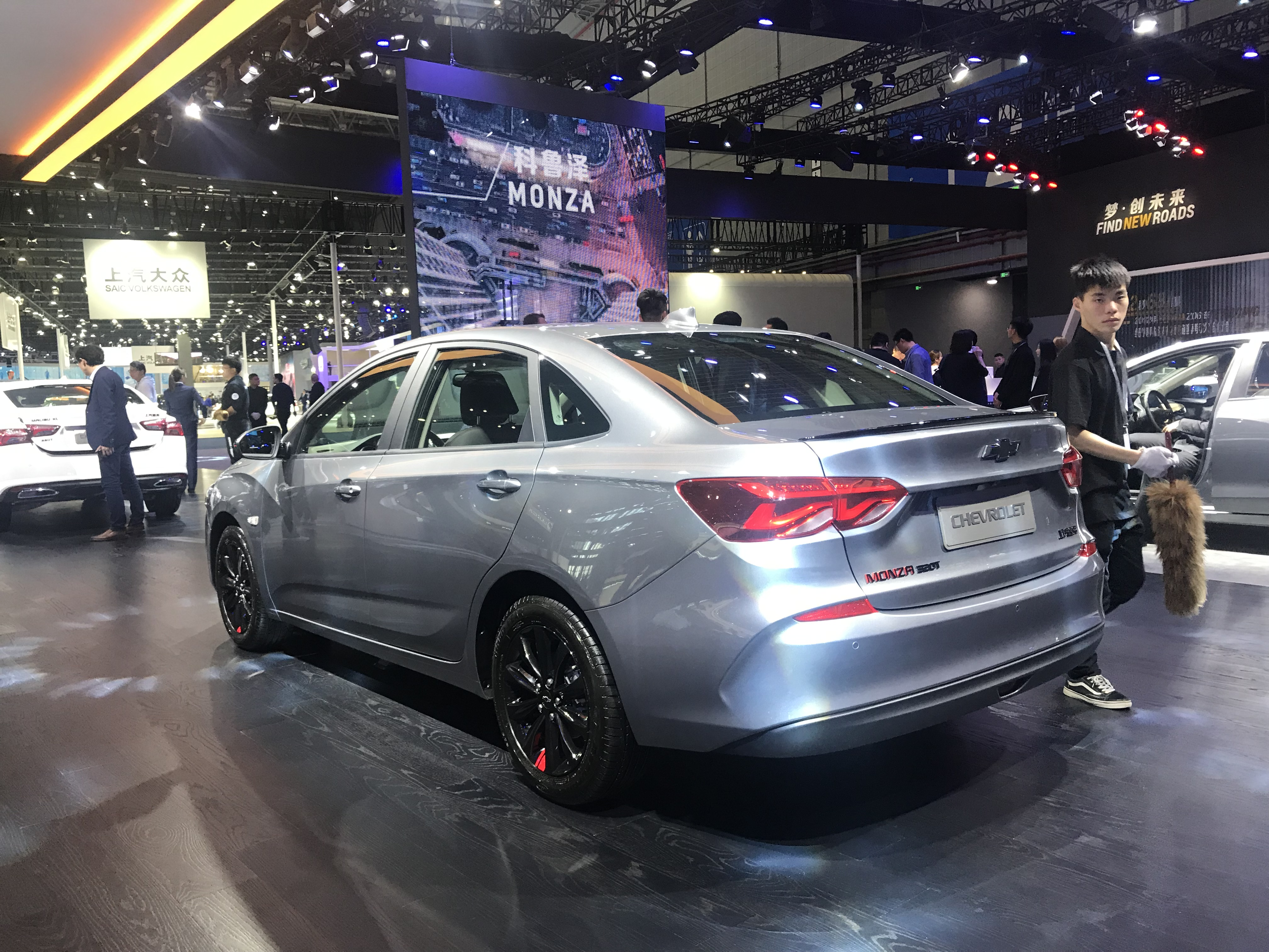 Chevrolet Monza rear